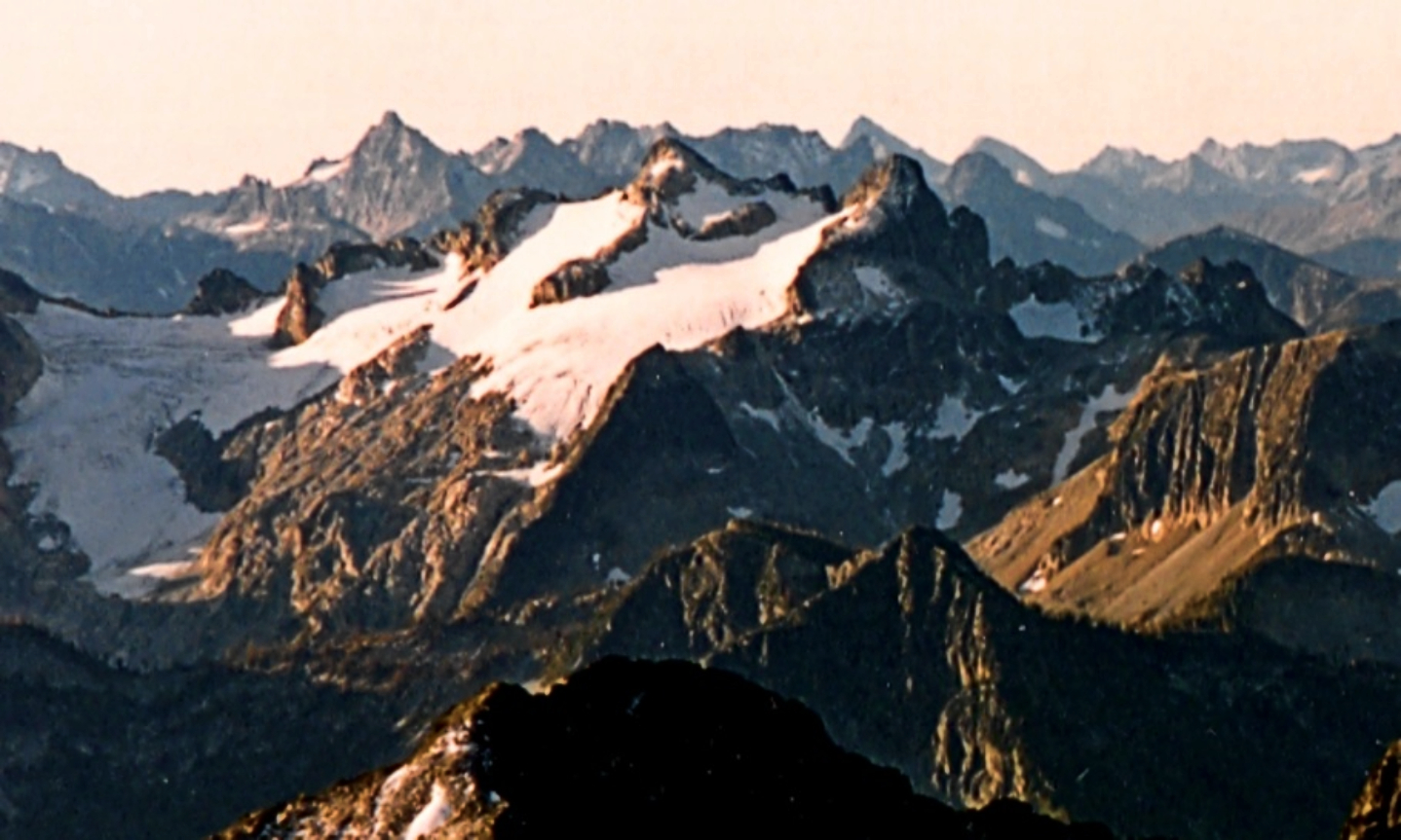 McGregor Mountain with Sandalee Glacier as seen from Black Peak in the North Cascades.